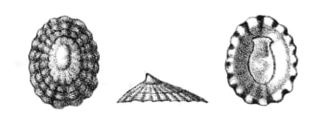 Illustration of Lottia subrugosa (d'Orbigny, 1846)[1] seashell; taken from Manual of Conchology, Structural and Systematic (1891). Species from northeast Brazil to Uruguay, in West Atlantic; on intertidal rocks and submerged wrecks. RIOS, Eliézer (1994). Seashells of Brazil 2nd Edition. Rio Grande, RS. Brazil: FURG. p. 29. 492 pp. ISBN 85-85042-36-2